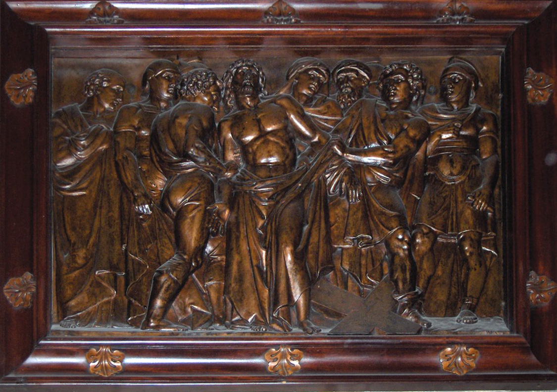 "Jesus is stripped of His garment"; Station of the Cross X; cathedral of Santiago de Compostela, Spain